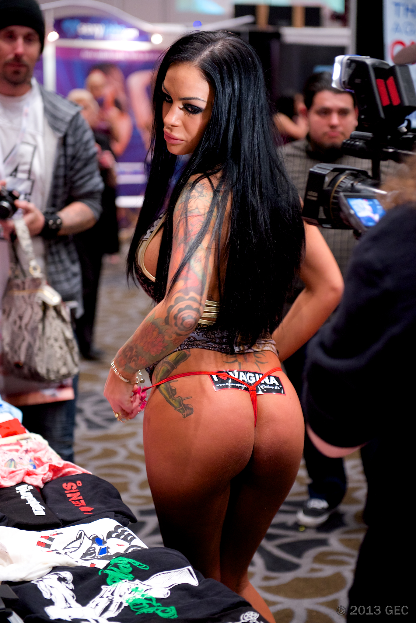 2013 AVN Adult Entertainment Expo AEE at Hard Rock Hotel - Las Vegas.